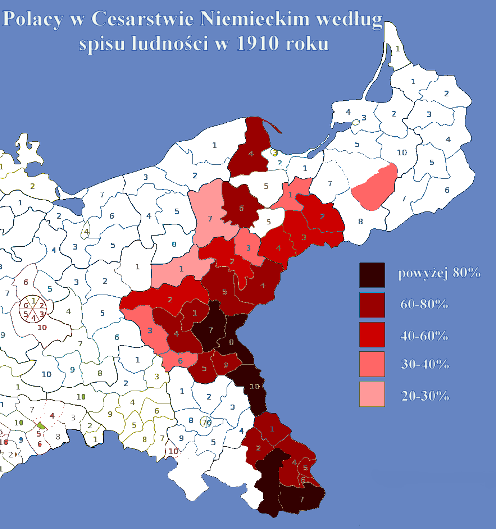 Poles in the German Empire electoral districts according to the census of 1910